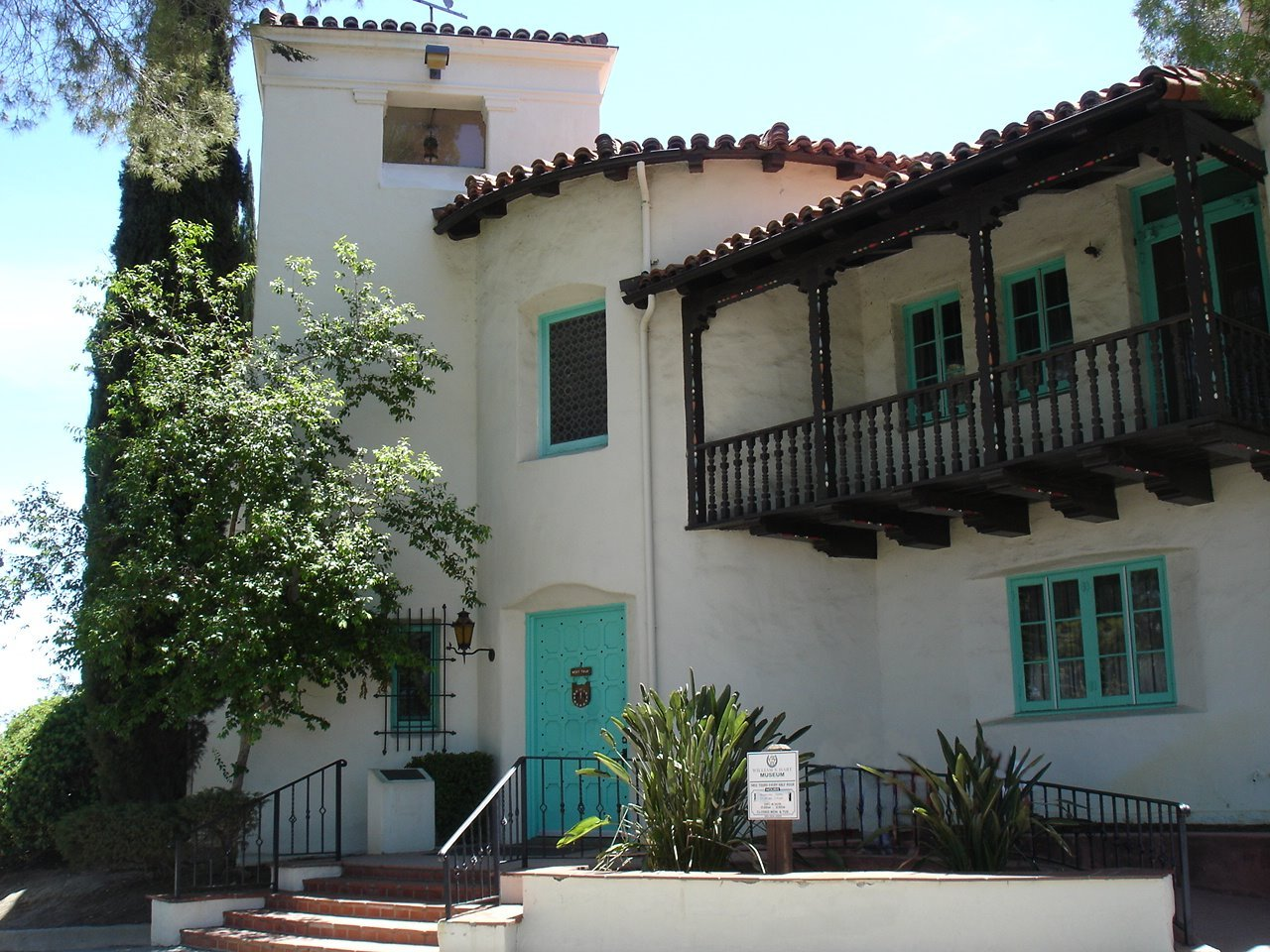 The Main House, “La Loma de los Vientos,” on the Hart Ranch — now a historic house museum in William S. Hart Park. William S. Hart was an early 20th century silent film star and director. Located in present day Santa Clarita (formerly Newhall), Southern California. The mansion, designed by architect Arthur R. Kelly in the Spanish Colonial Revival style, was completed in 1928. Source My photograph